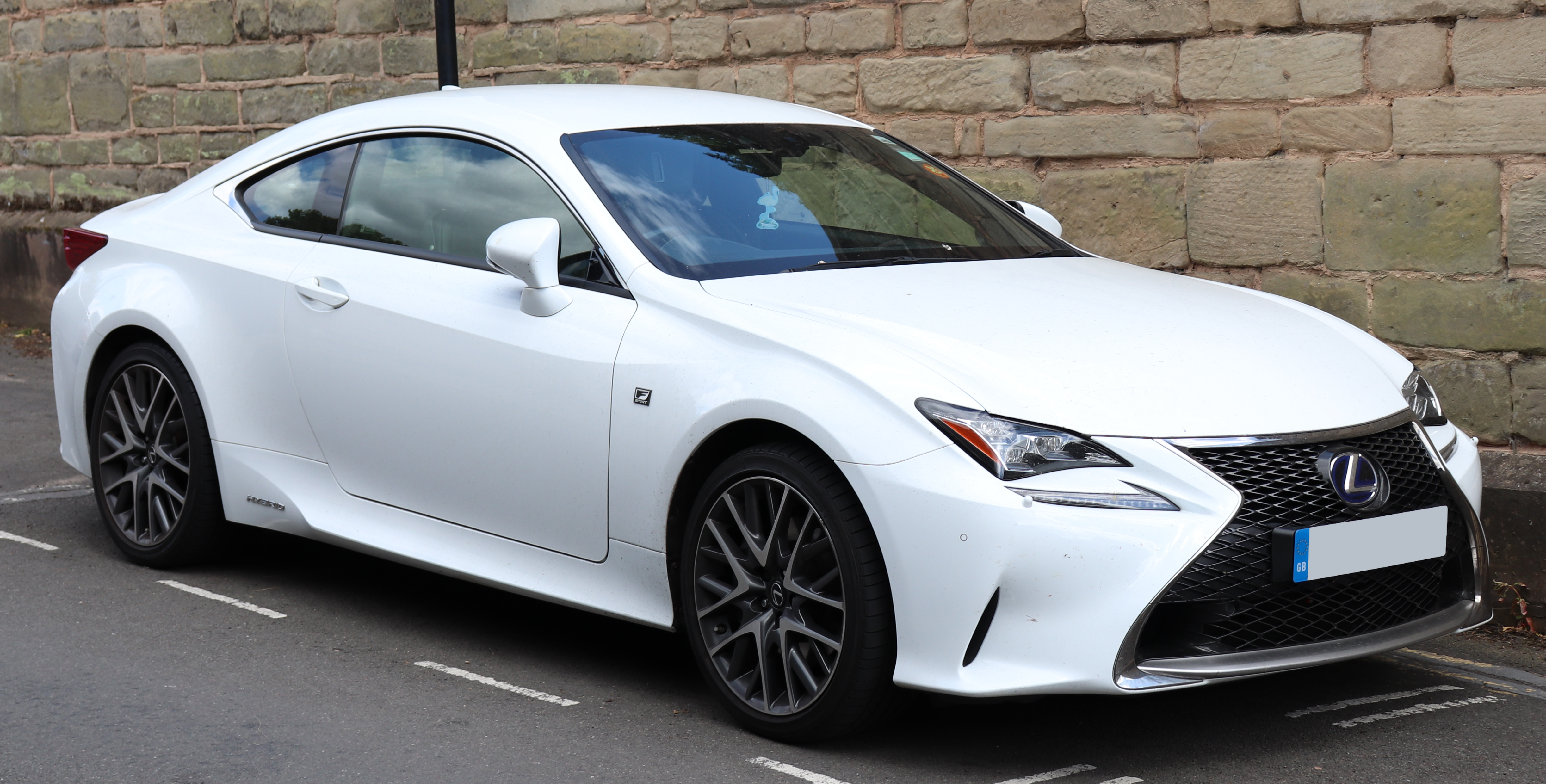 2016 Lexus RC 300h F Sport CVT 2.5 Front Taken in Warwick